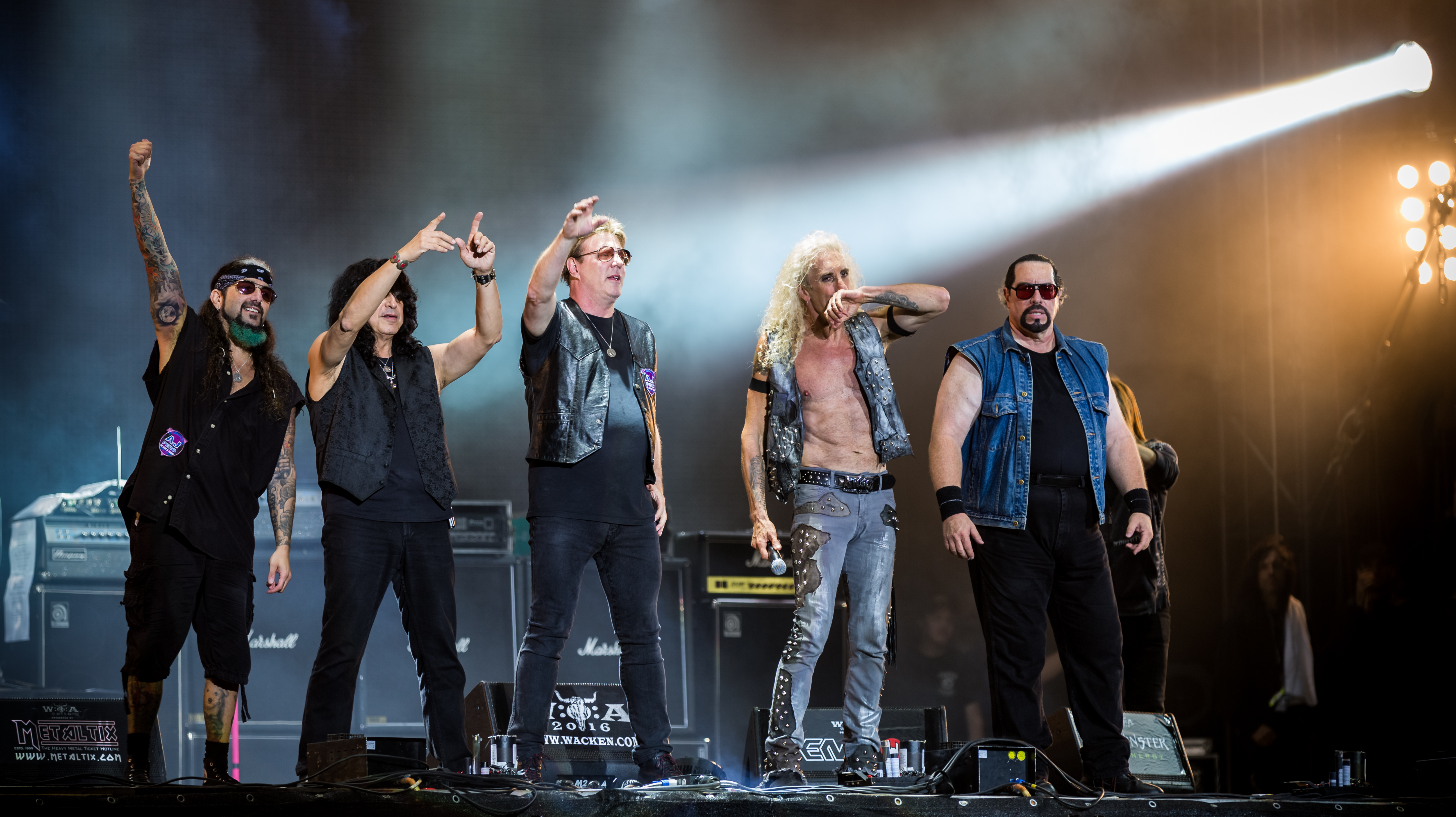 Twisted Sister - Wacken Open Air 2016